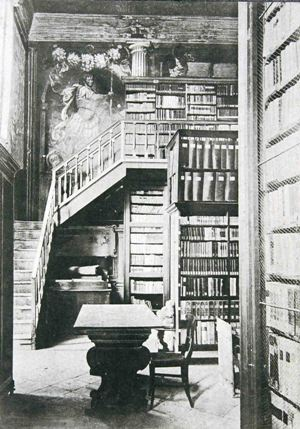 2 La Biblioteca nella vecchia sede presso la Sala dei Giganti - Biblioteca Universitaria Padova